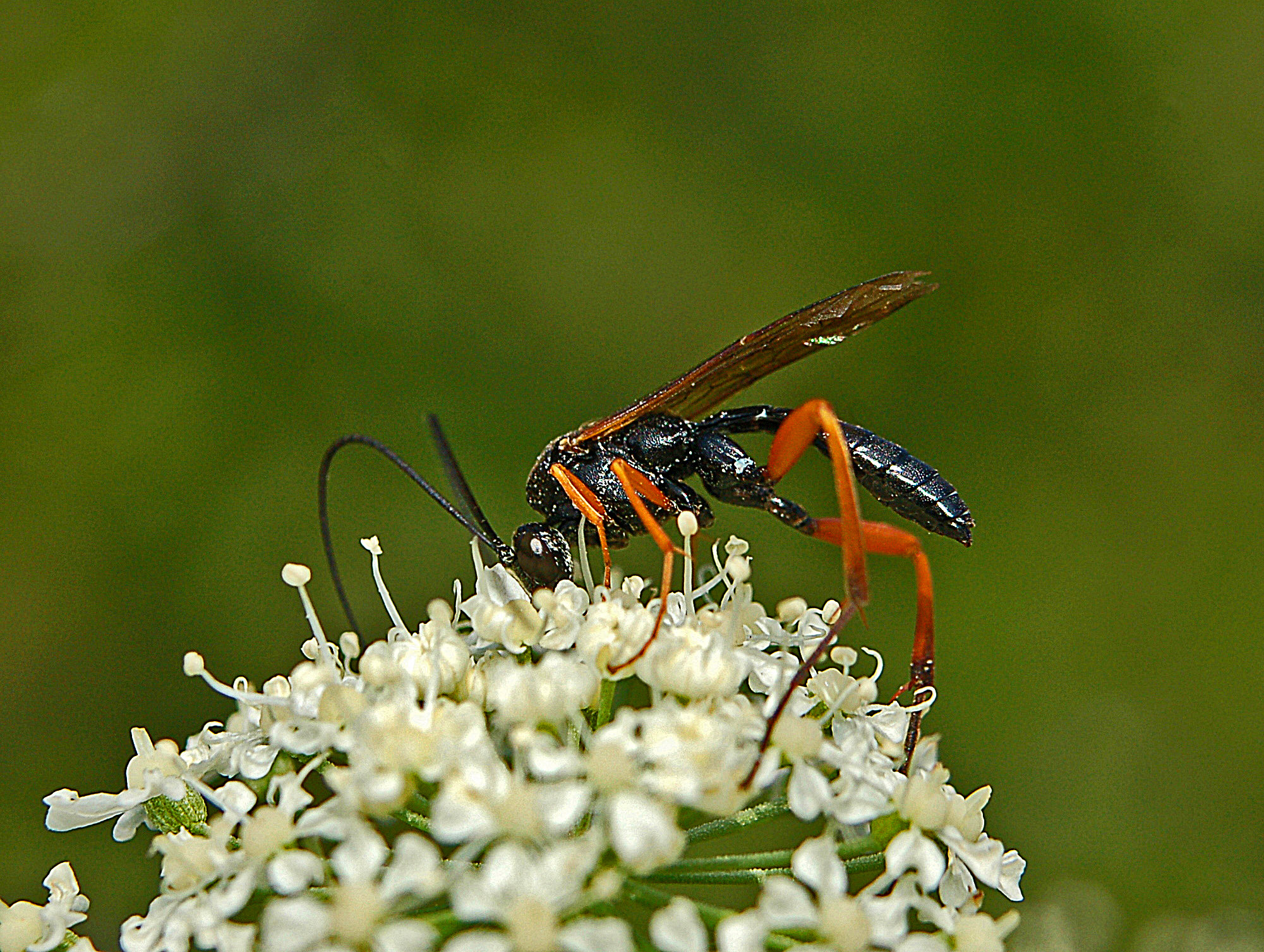 Pimpla cf. rufipes (syn. Pimpla instigator), male. Regional Park of Antola, Genoa, Italy